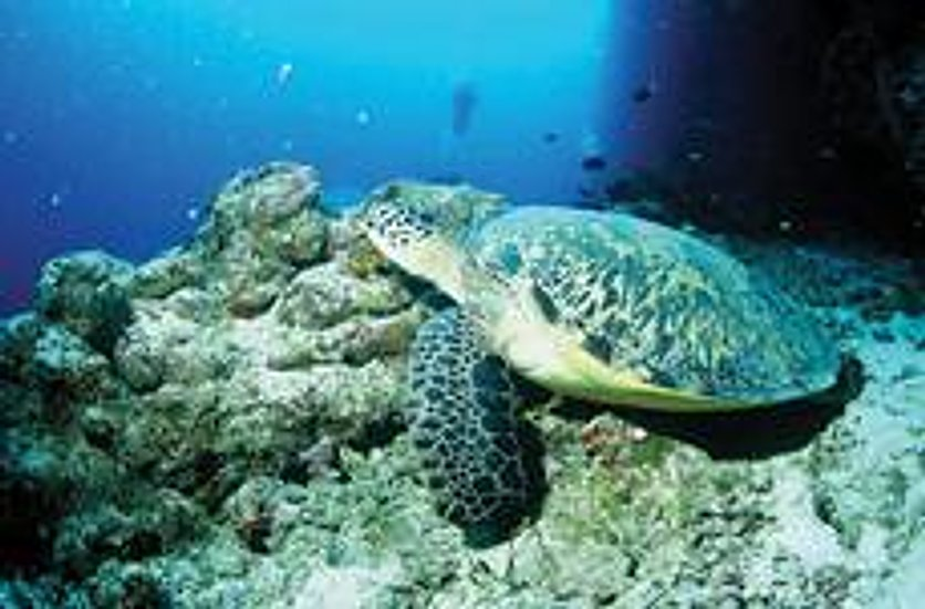 Submarine world at Dahlak islands.